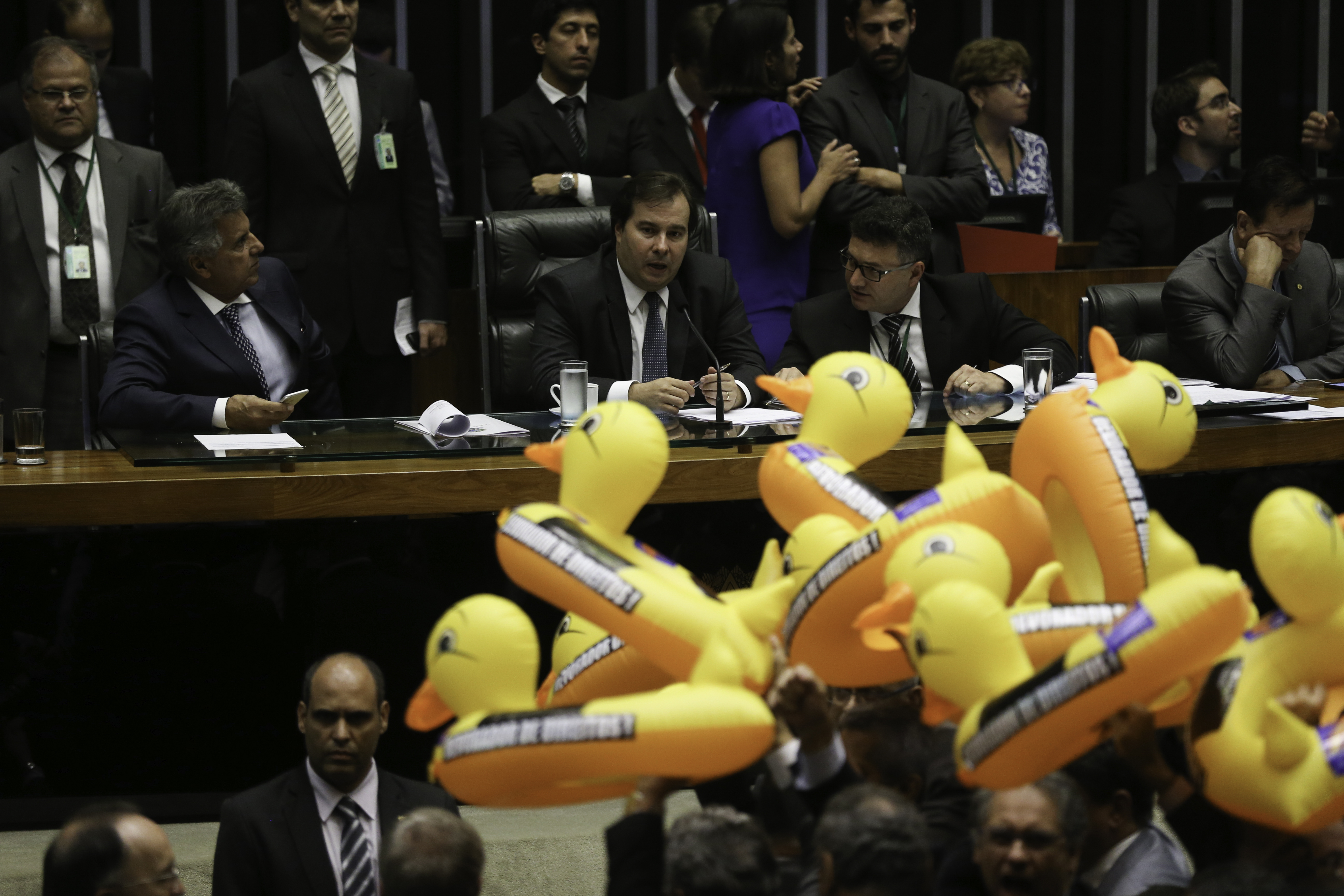 Brasília - Oposição faz ato em Plenário contra o Projeto de Lei (PL) 4.302/1998, que libera a terceirização da mão de obra (Fabio Rodrigues Pozzebom/Agência Brasil)